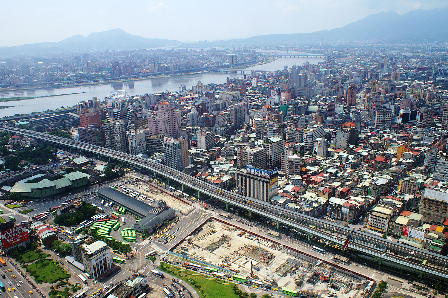 Taipei Civic Blvd. Expressway.